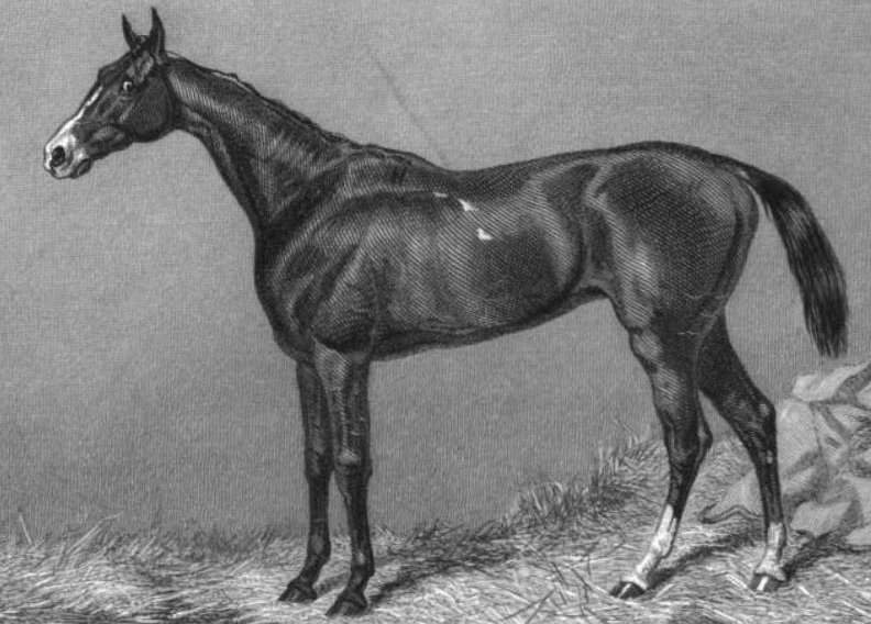 1870 Epsom Oaks winner Gamos.